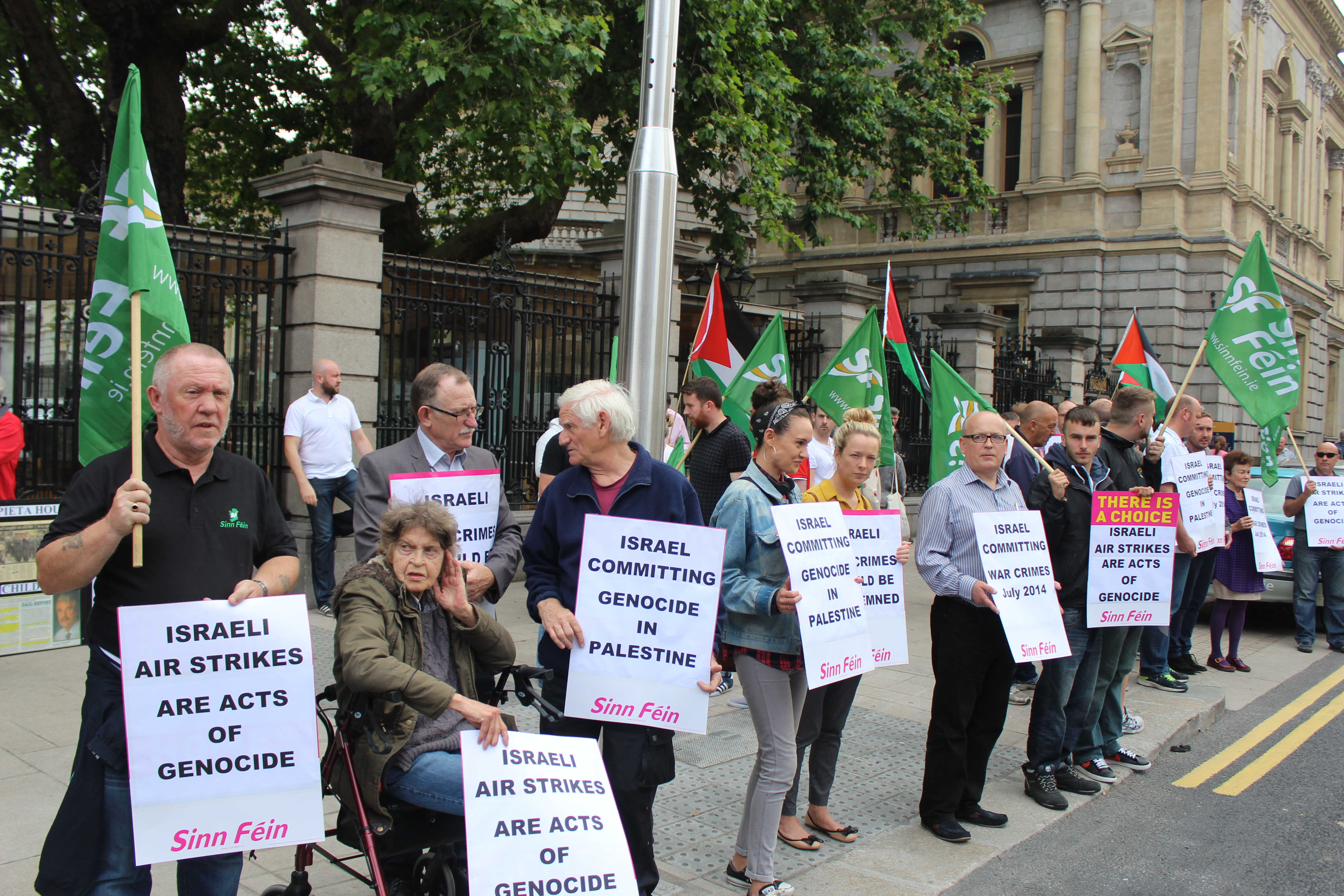 Protest against Israeli aggression